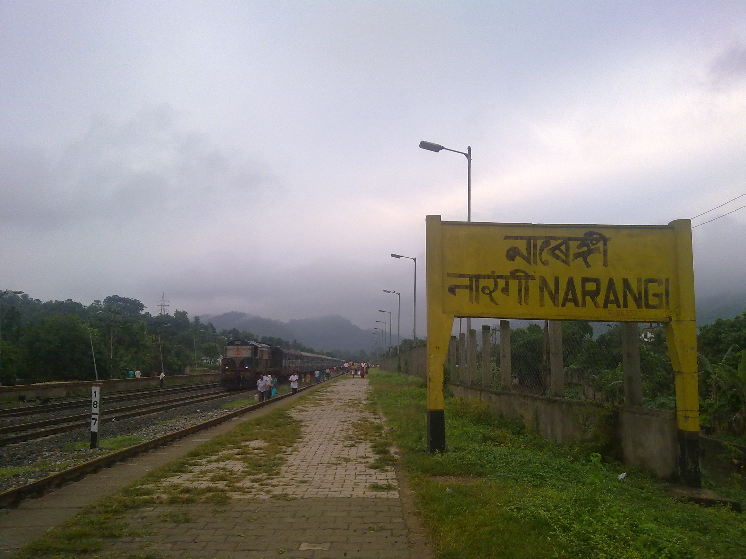 Rush at Narengi Station at the time of Train arrival